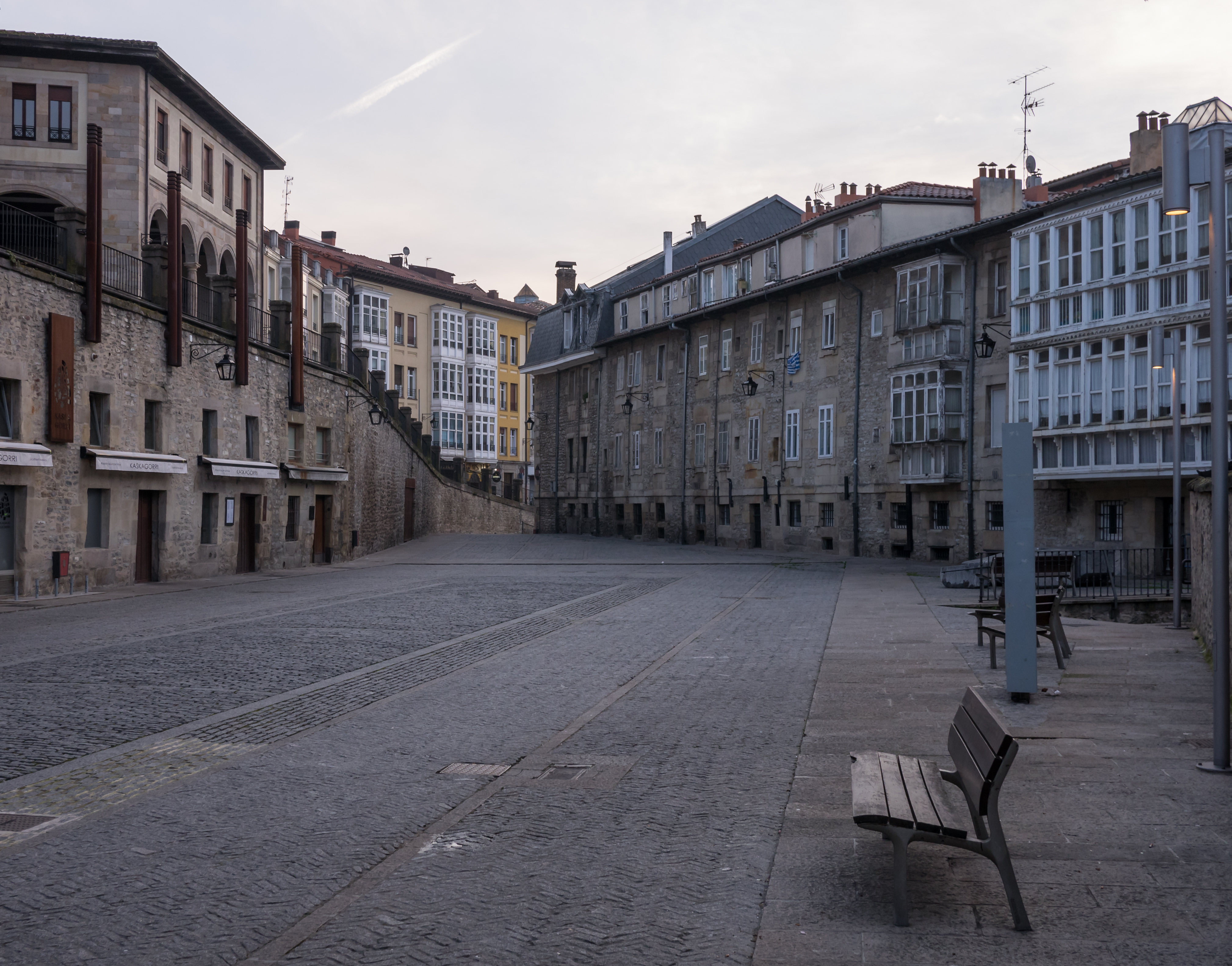 Machete Square in the morning. Vitoria-Gasteiz, Basque Country, Spain